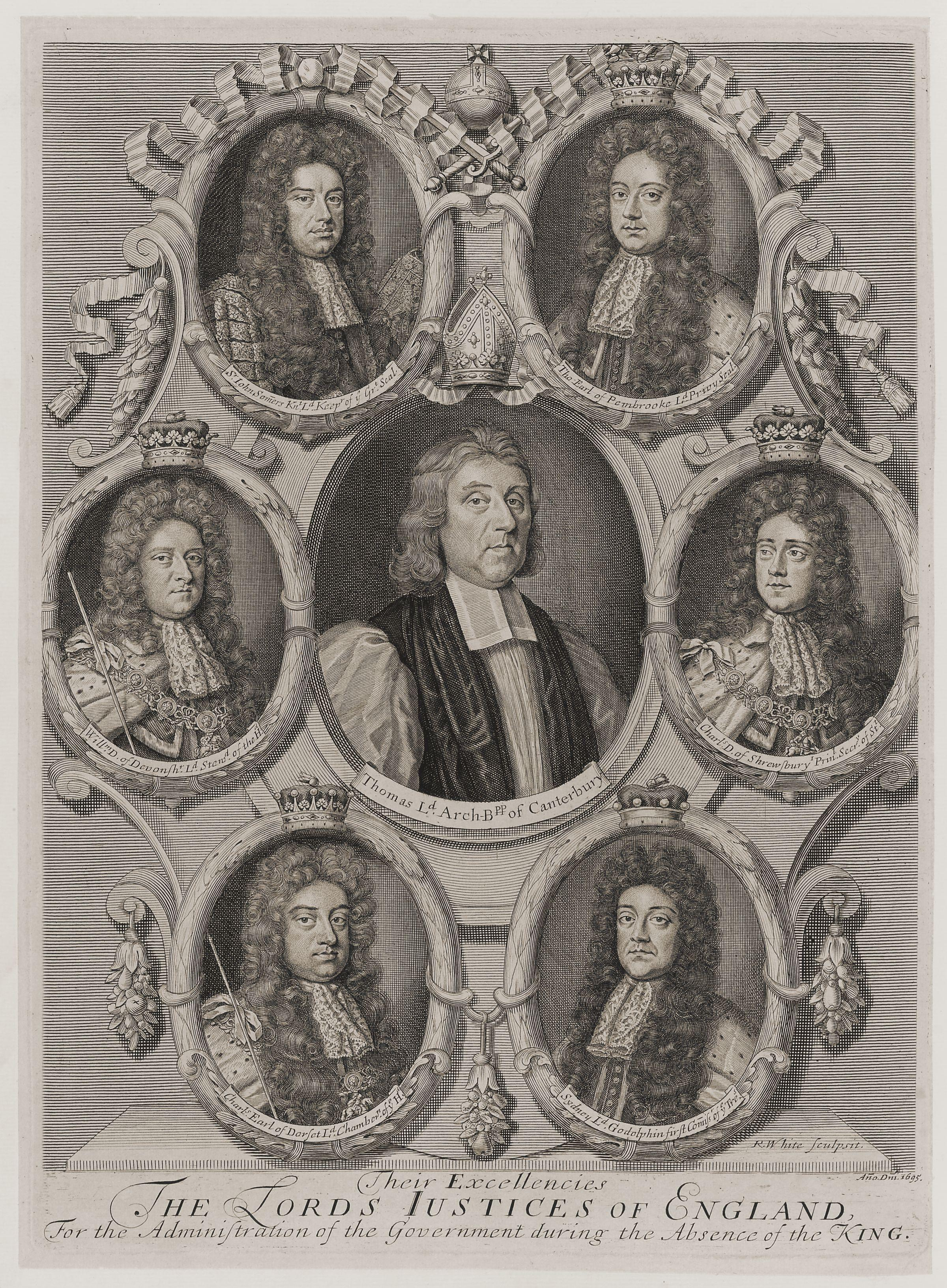 Their Excellencies the Lords Justices of England, for the administration of the Government during the absence of the King, by Robert White (died 1703), given to the National Portrait Gallery, London in 1916. All images in this batch have been confirmed as author died before 1939 according to the official death date listed by the NPG.